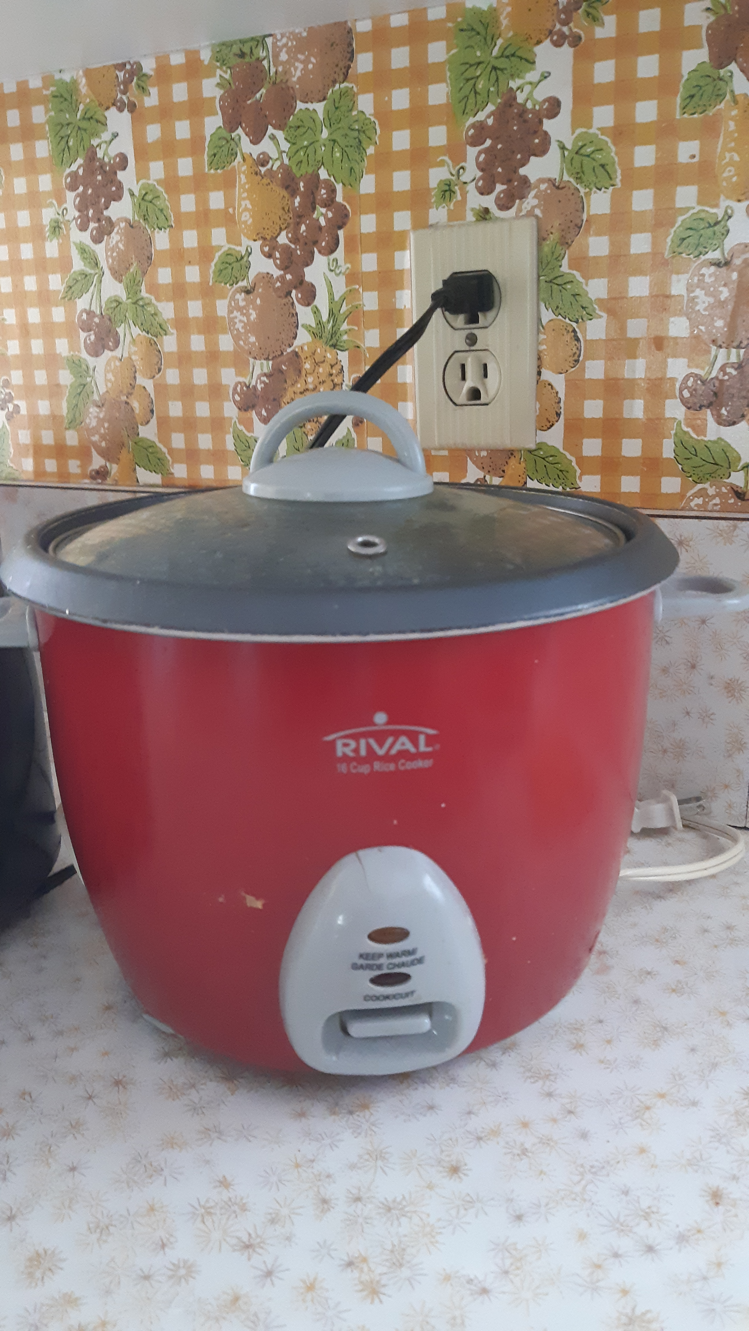 Rival Rice Cooker